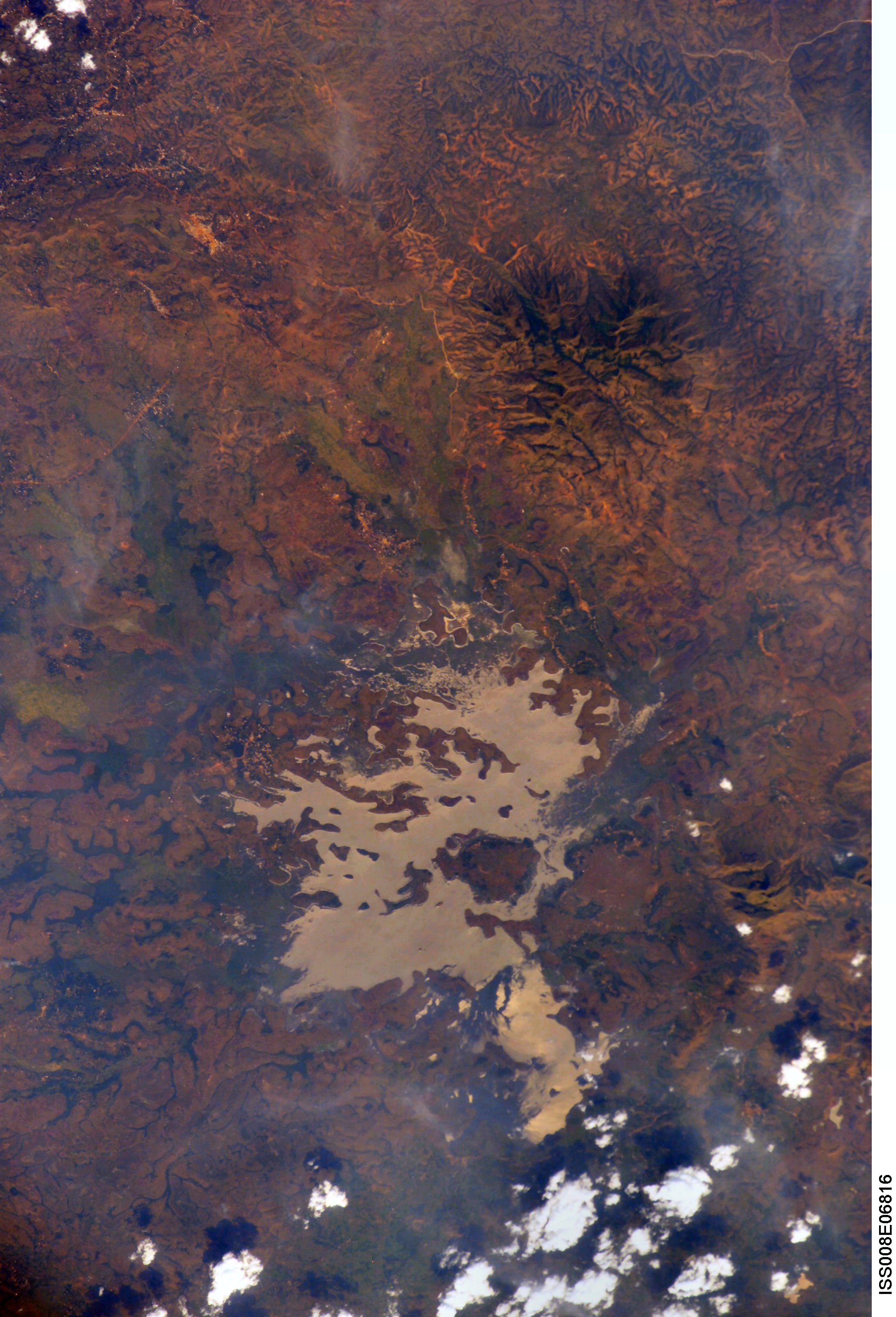 NASA Photo ISS008-E-6816 of Lake Bamendjing and the Mban Massif in Cameroon, Africa. Fade correction and rotation to "North up" by up-loader. Camera: E4: Kodak DCS760C Electronic Still Camera; Film: 3060E : 3060 x 2036 pixel CCD, RGBG array. More photo data at